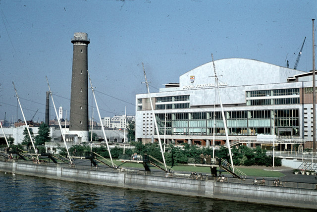 Royal Festival Hall and Shot Tower c1959. Picture taken from Hungerford Bridge and scanned from a rather dusty old slide. The tower was demolished in the 1960's to make way for the Queen Elizabeth Hall.